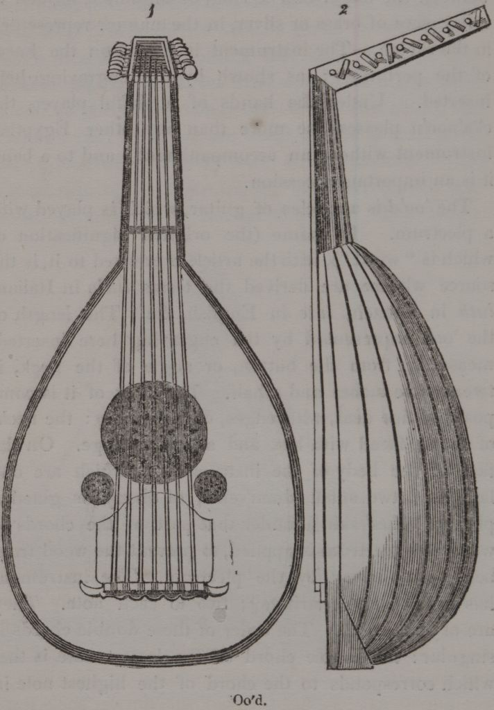 A species of guitar shaped like a mandolin. Engraving (prints).